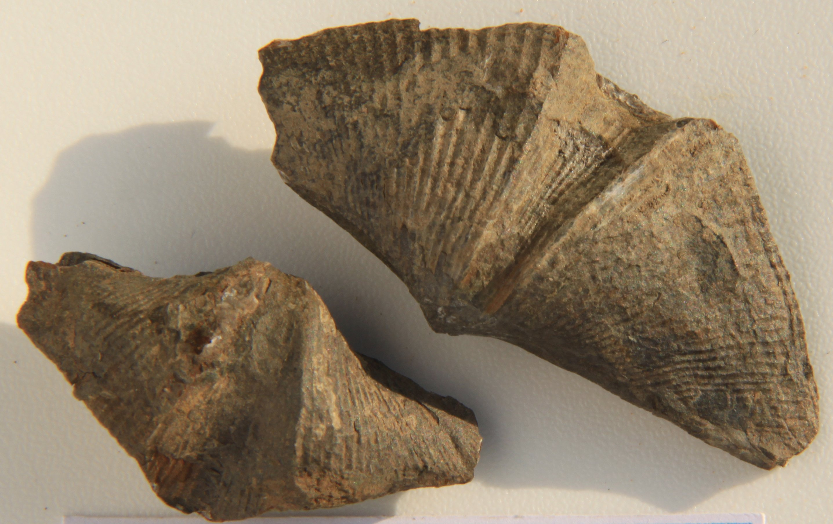 Two lampshells Cyrtospirifer verneuili, Order Spiriferida, Family Cyrtospririferidae, the larger measures 24mm along the sagittal axis, found near Barvaux, Liege Province, Belgium, Upper Devonian